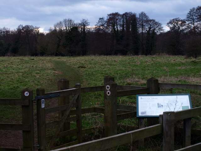 A number of features Entrance to Flitwick Moor - seen from the Two Moors Heritage Trail